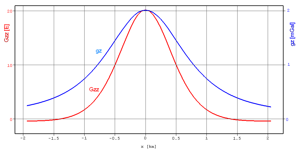 Comparison of gz and Gzz anomalies for a point source at 1 km depth.